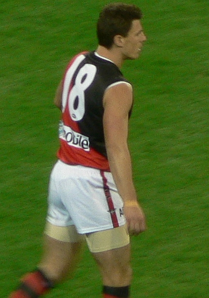 Matthew Lloyd, Australian rules footballer